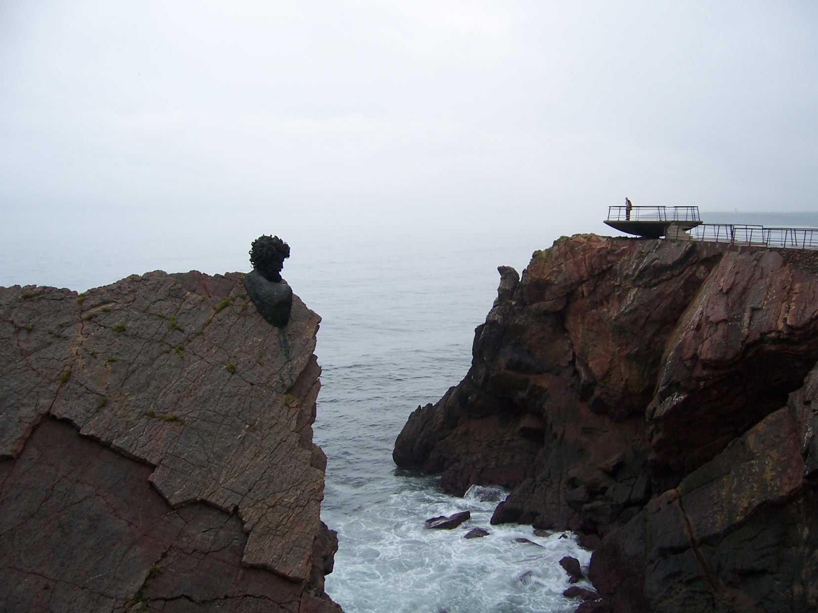 Museo de las anclas "Philippe Cousteau" en Salinas (Asturias, España). Homenaje a Philippe Cousteau. "Philippe Cousteau museum of the anchors at Salinas (Asturias, Spain). Tribute to Philippe Cousteau.